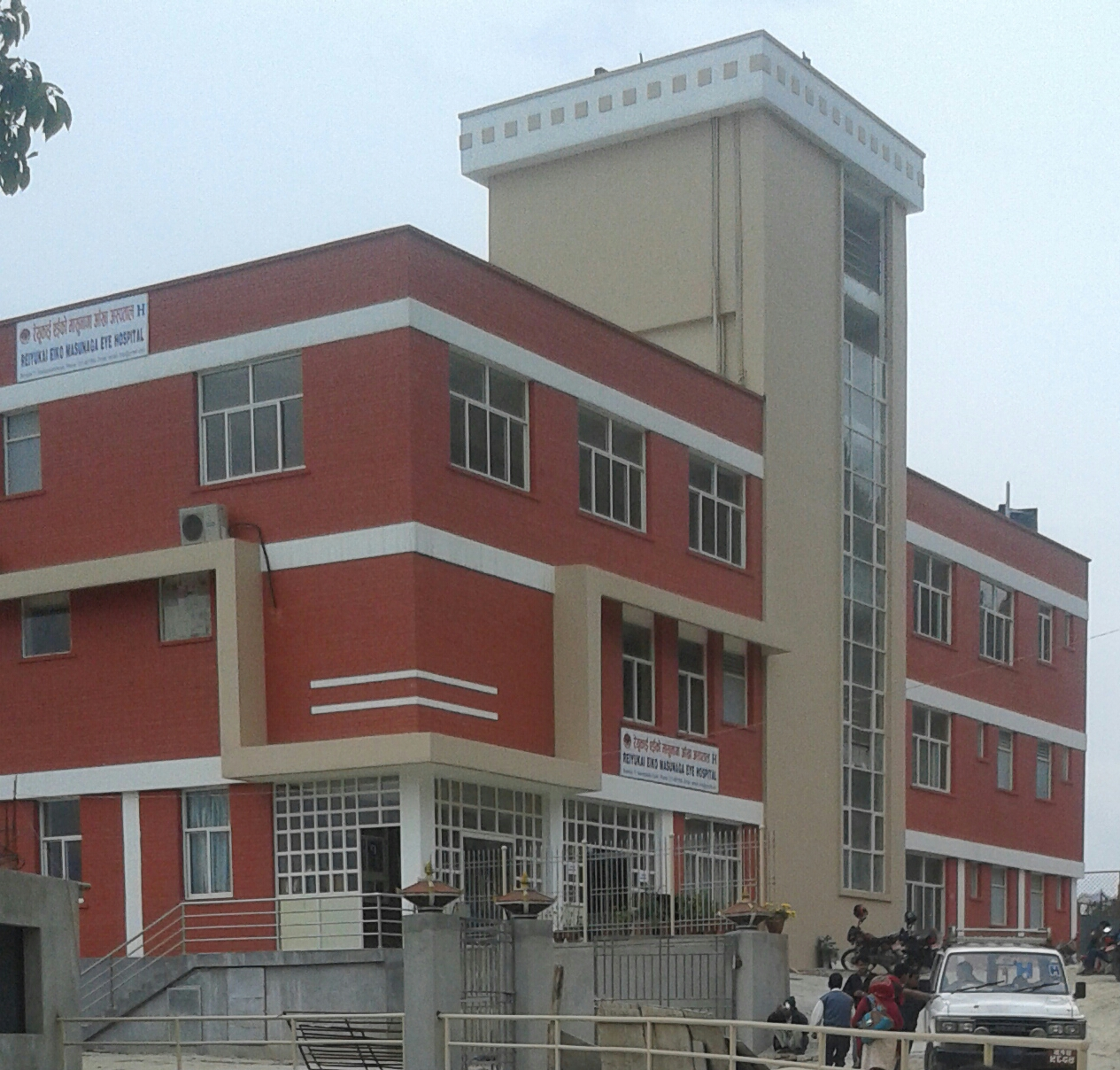 This is the building of Reiyukai Eiko Masunaga Eye Hospital.